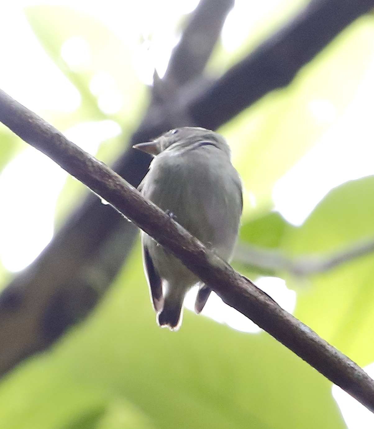 Dwarf tyrant-manakin at Carajás National Forest - Pará - Brazil